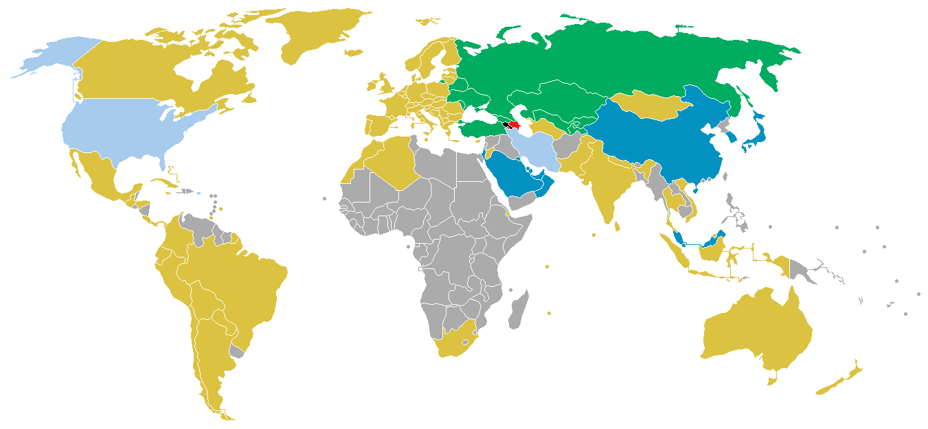 Visa policy of Azerbaijan Republic of Azerbaijan Visa free for all passports Visa issued upon arrival by air for ordinary passports and visa free for diplomatic and service passports. Also eligible for ASAN electronic visa. Visa on arrival under special conditions for ordinary passports and visa free for diplomatic and service passports. Also eligible for ASAN electronic visa. Eligible for ASAN electronic visa. Visa required prior to arrival Entry banned